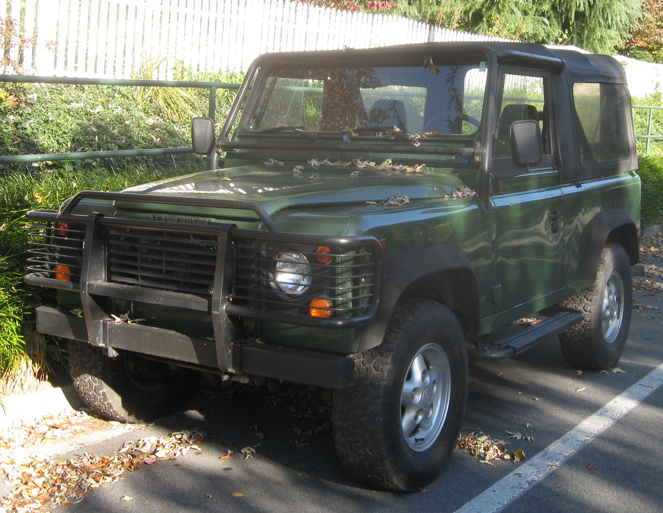 Land Rover Defender 90 photographed in Kensington, Maryland, USA.